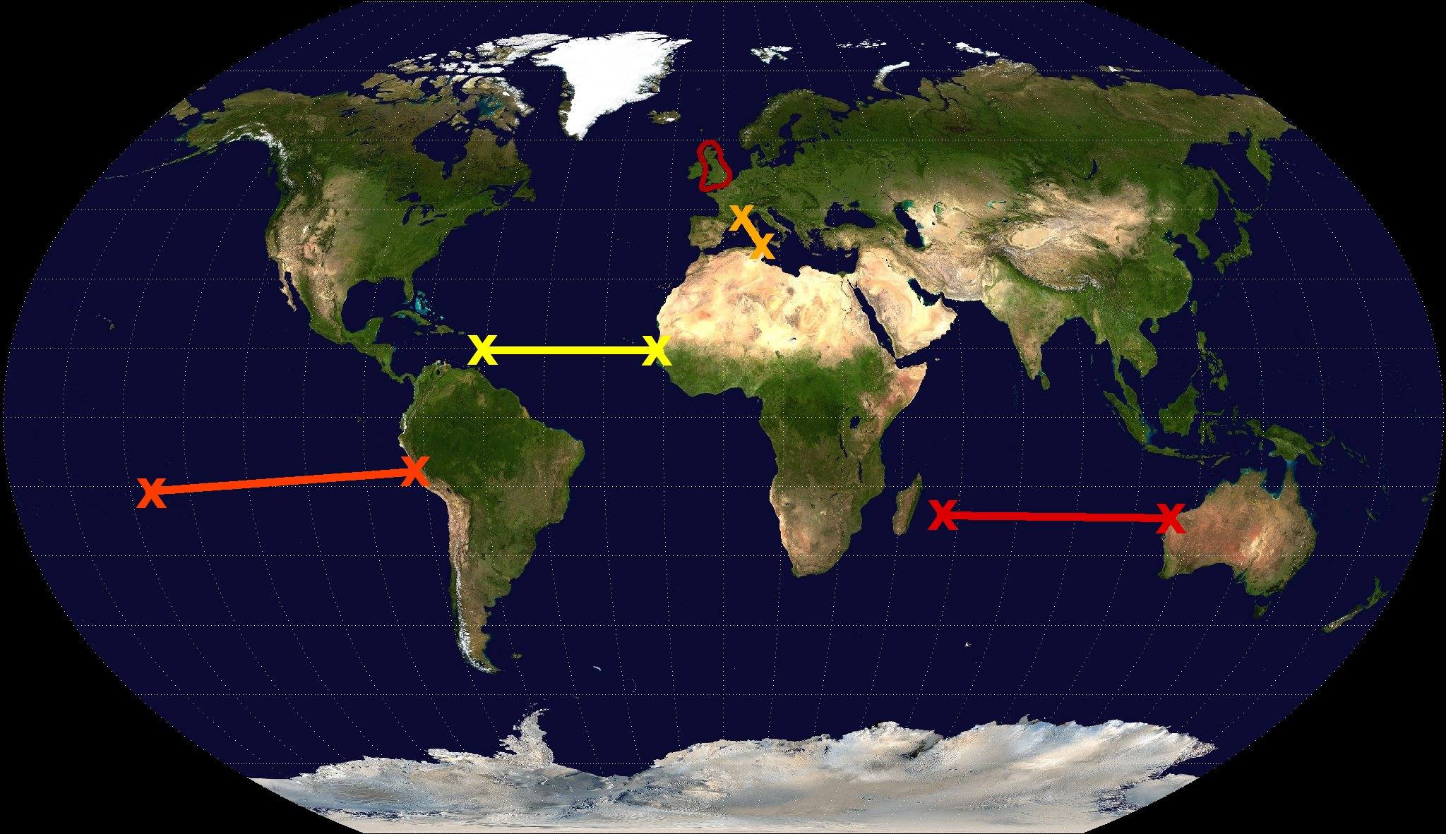 Ports of departure and arrival of windsurfer Rafaëla le Gouvello, in her trans-atlantic (2000), trans-Mediterranean (2002), trans-pacific (2003), trans-Indian Ocean (2006), and round-Great Britain (2007) tours. The connecting routes for the trans-oceanic trips are only drawn for better visibility and do not indicate the exact routes taken.